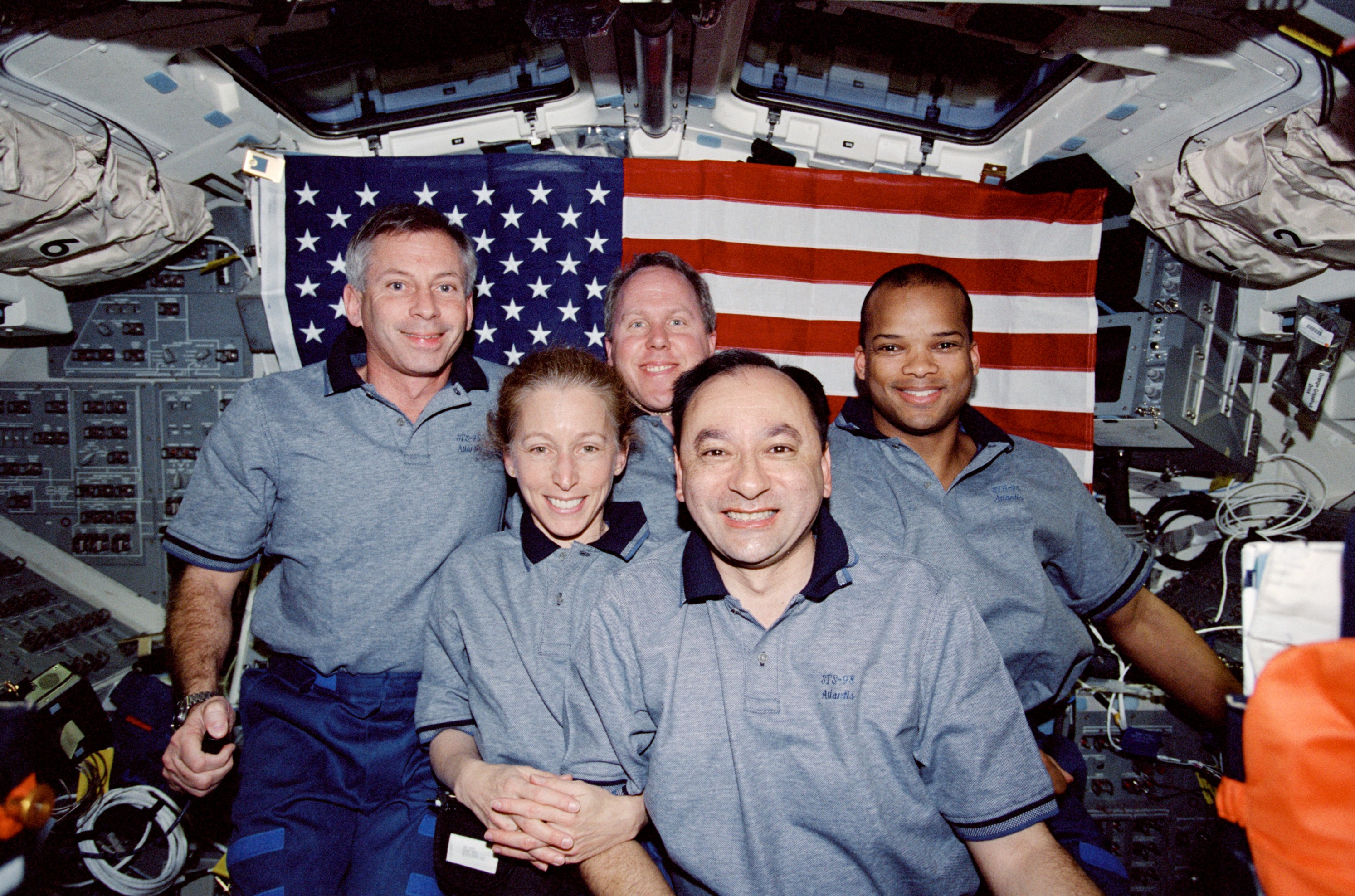 The crew of the STS-98 mission poses for the traditional inflight portrait on the flight deck of the Space Shuttle Atlantis. From left are astronauts Kenneth D. Cockrell, mission commander; Marsha S. Ivins, mission specialist; Thomas D. Jones, mission specialist; Mark L. Polansky, pilot; and Robert L. Curbeam, mission specialist.